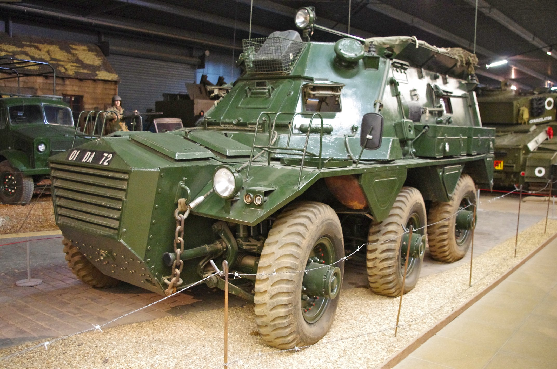 Imperial War Museum, Duxford